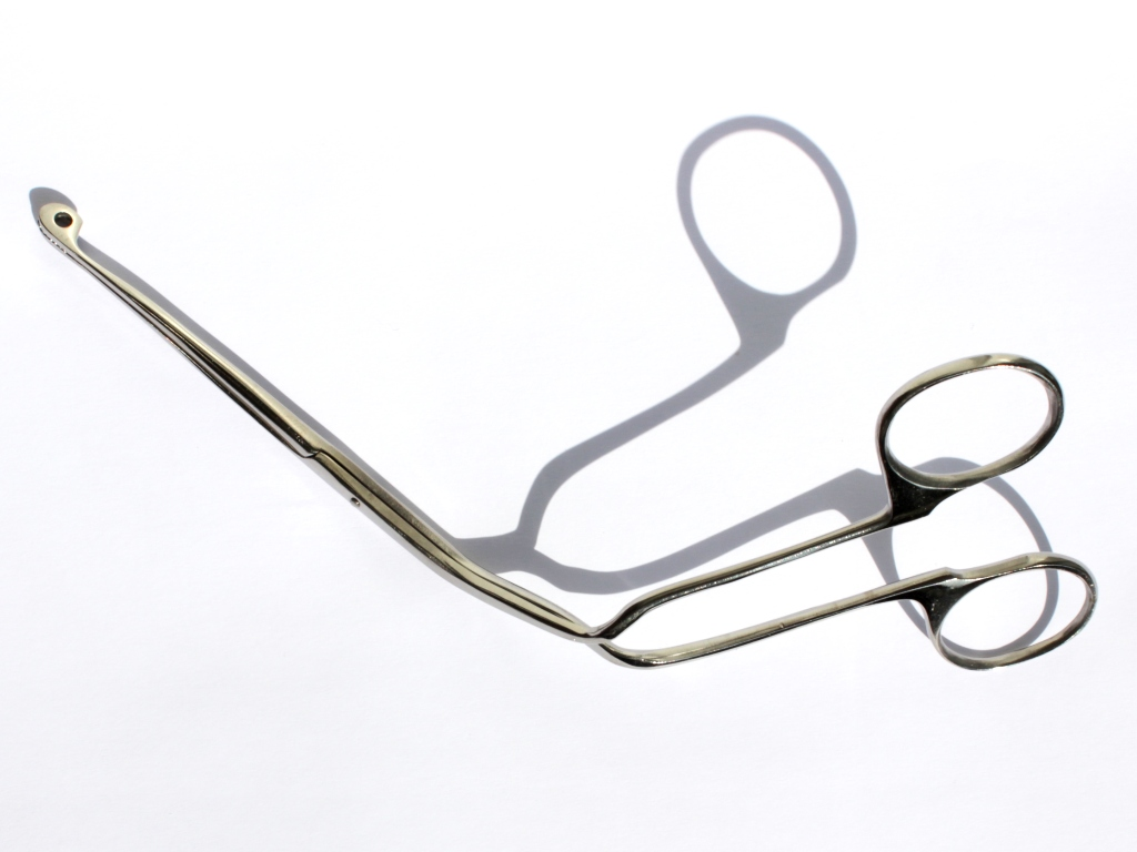 Catheter Introducing Forceps MAGILL